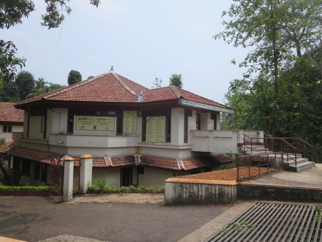 rudseti, training institution